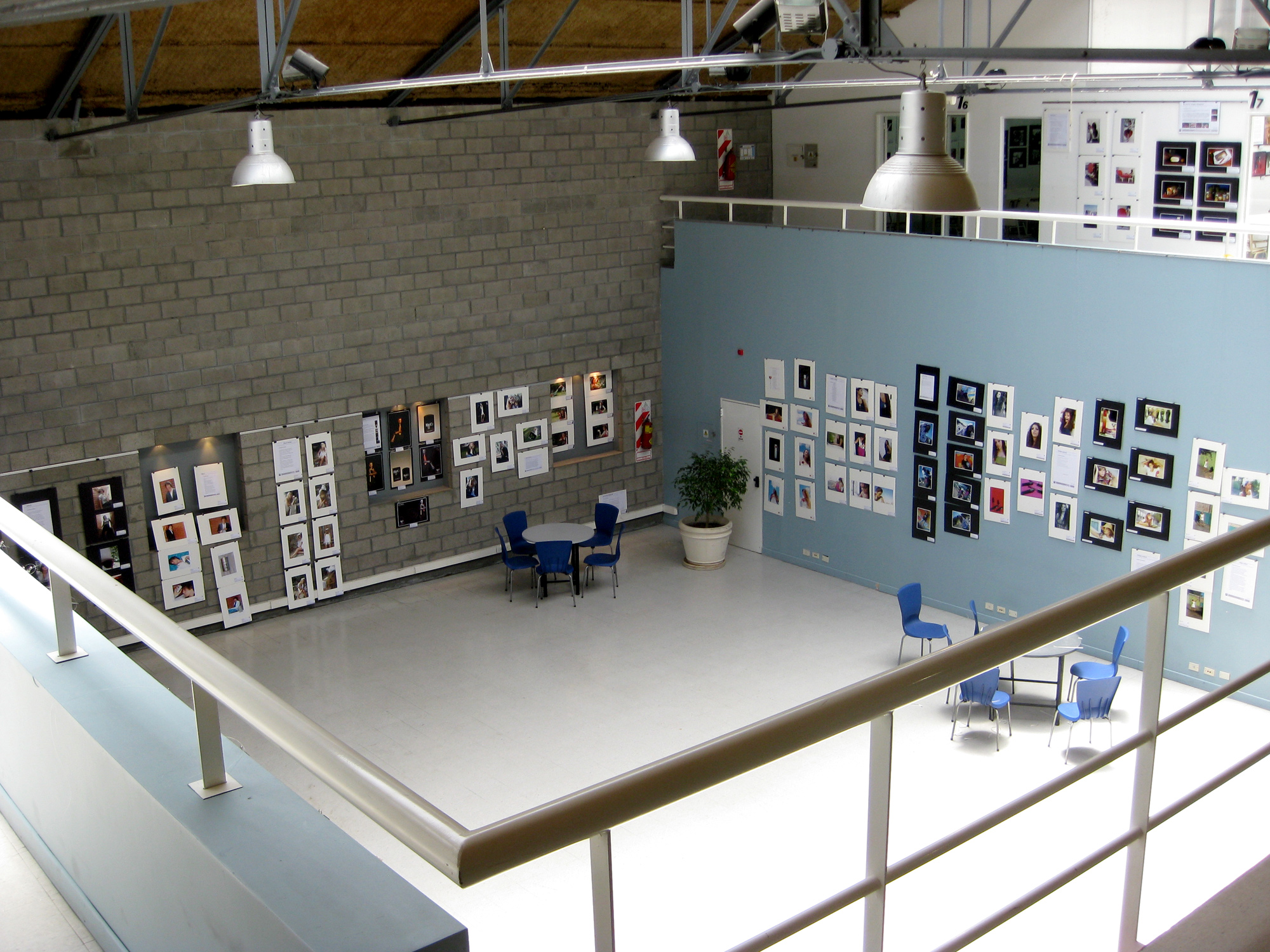 Inside the University of Palermo's Art and Architecture building